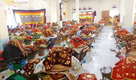 photo